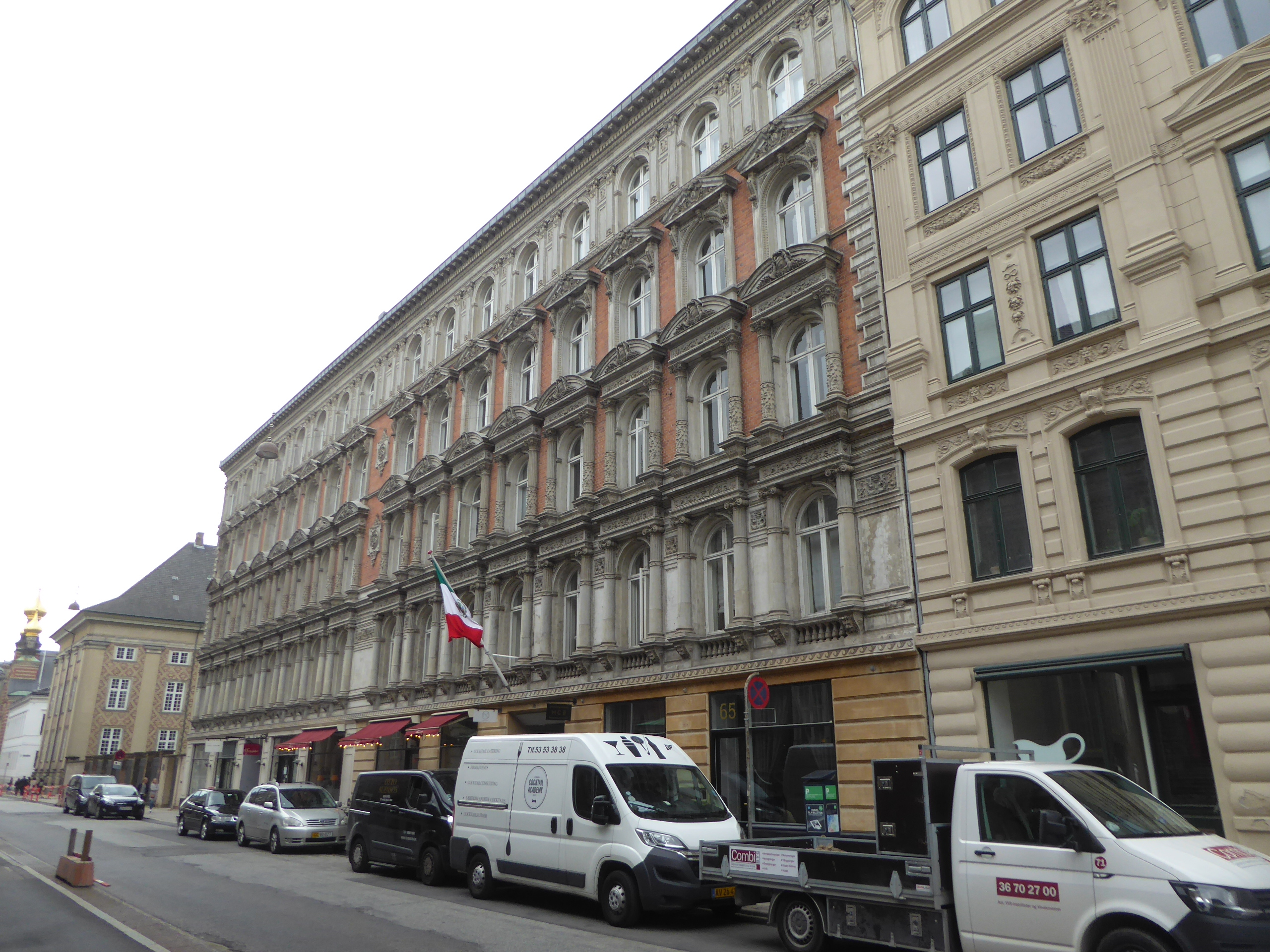 The embassy of Mexico at Bredgade in Indre By in Copenhagen.